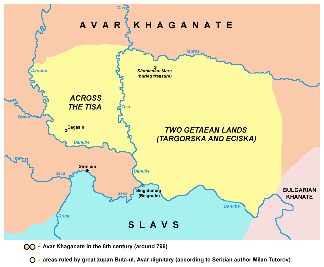 Areas ruled by great župan Buta-ul, Avar dignitary, 8th century (around 796), according to Serbian author Milan Tutorov.